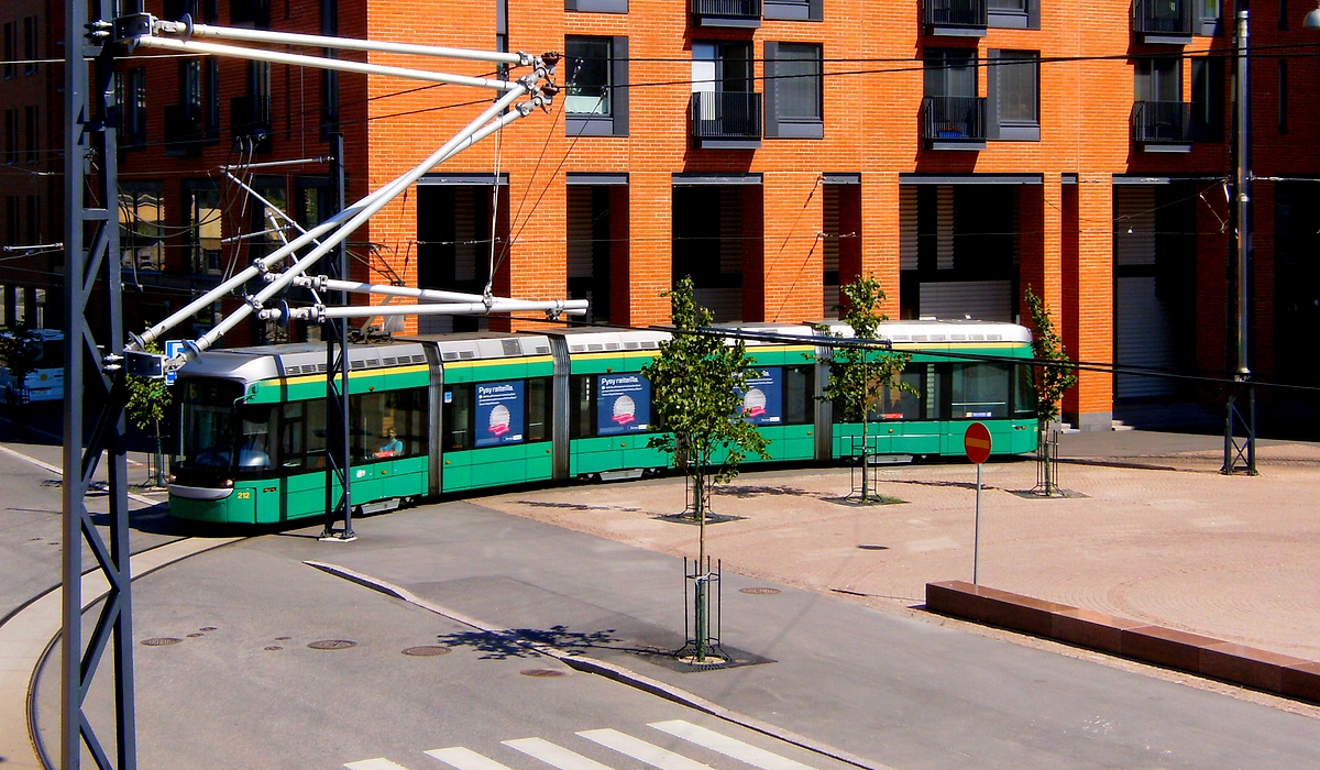 A tram in Arabianranta, Helsinki, Finland